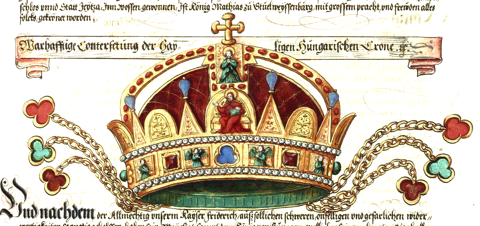 A Szent Korona legrégibb hiteles képe egy napjainkban Münchenben őrzött kétkötetes munka első részében maradt fenn; ennek kezdőlapján az 1555-ös évszám olvasható. A korona annak illusztrációjaként díszeleg ott, hogy a szerző elmeséli, miként szerezte vissza 1463 júliusának végén, a bécsújhelyi tárgyalásokat követően Hunyadi Mátyás király III. Frigyes császártól a magyar felségjelvényt.